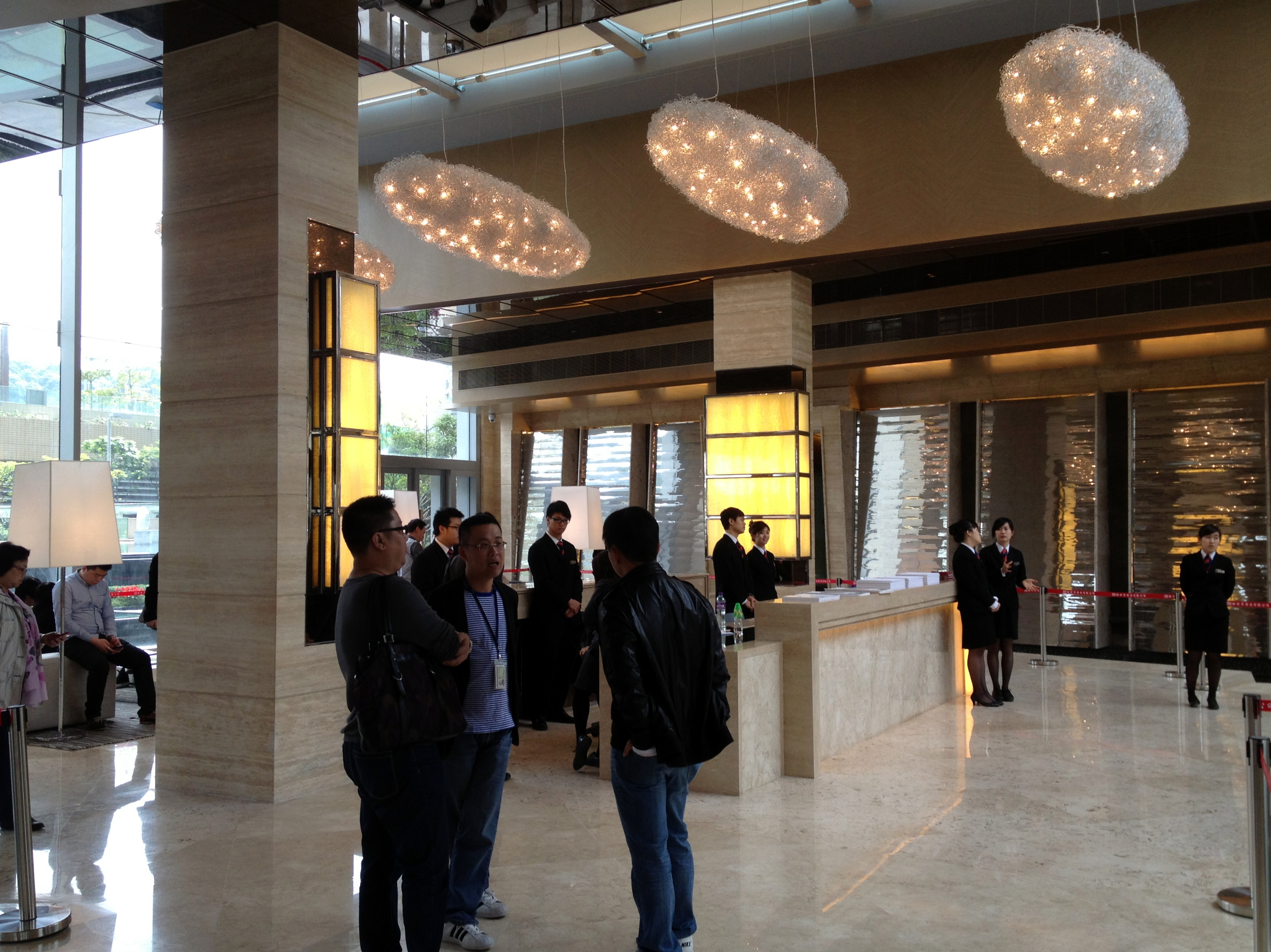 The Riverpark Clubhouse Lobby